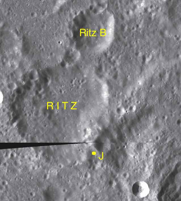 Parts of the charts LAC-82, LAC-100 used for the presentation